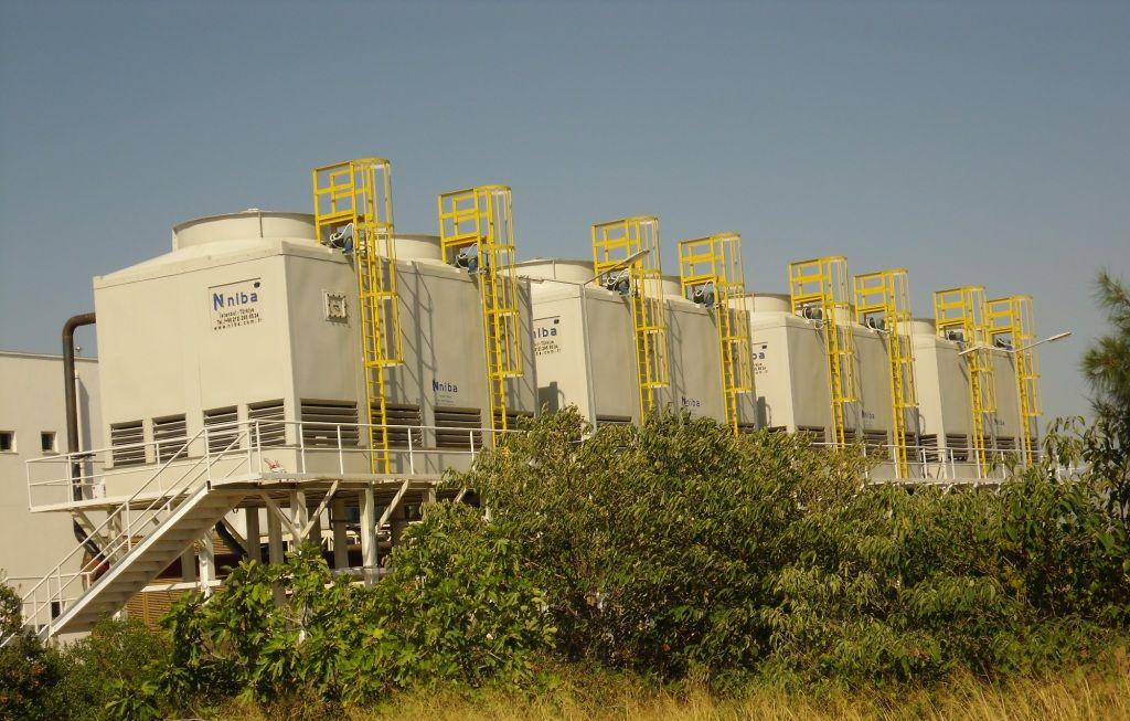 Wet type induced draft counter flow package cooling towers